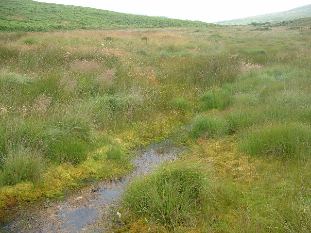 Stream below Garrow Tor. in a SSSI on Bodmin Moor